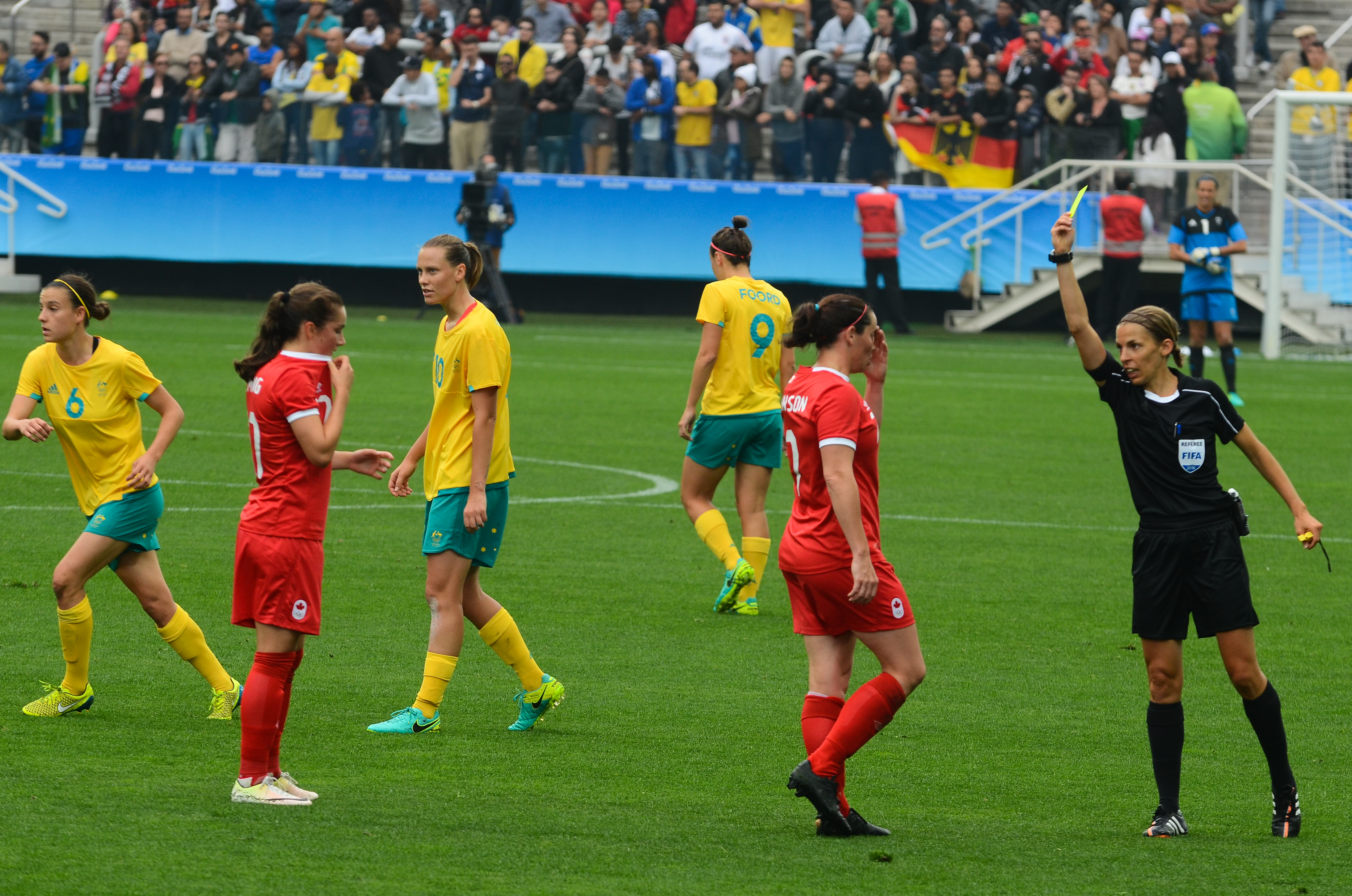 Canada versus Australia at the 2016 Summer Olympics, 3 August 2016.